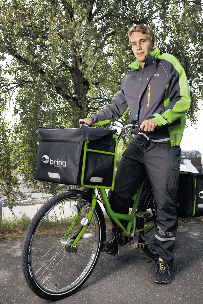 A so called "Cityman"